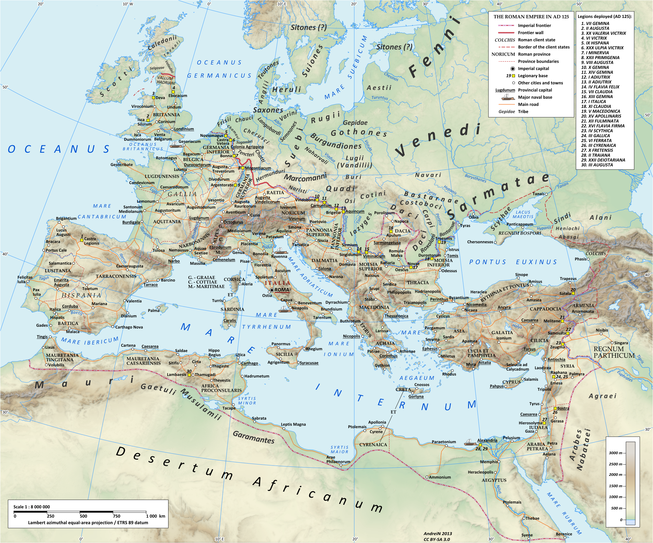 Map of the Roman Empire in 125 during the reign of emperor Hadrian. Projection Lambert azimuthal-equal area. Central latitude: 45° N, central longitude: 20° E. X, Y origin offset - 0 Datum: ETRS89 Sources The physical map was made using the following public domain sources: Topography: NASA Shuttle Radar Topography Mission (SRTM30) data Shoreline, lakes and rivers: derived from Natural Earth data Additional references for the map content: Tacitus, Germania (ca. 100) Ptolemy, Geographia (ca. 140) Atlante storico DeAgostini, Instituto Geografico DeAgostini, 1998. pg. 35-41. Historischer Weltatlas, Dr. Walter Leisering, Marix Verlag, 2011. pg. 26-27 Történelmi világatlasz, Cartographia Kiadó, 2005. pg. 20-21. The Penguin Historical Atlas of Ancient Rome by Christopher Scarre, Penguin Historical Atlases, 1995. pg. 81. Software used GIS: Open JUMP GIS (open source): GRASS GIS (open source): Graphics editors: Inkscape (open source): GIMP (open source)